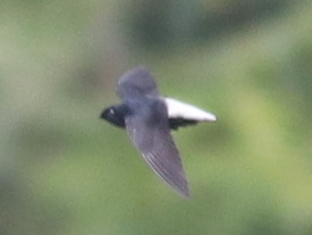 Rhaphidura leucopygialis, Silver-rumped Spinetail, Malaysia - Taman Negara